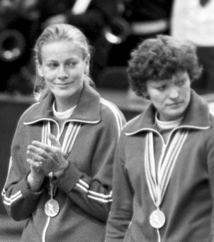 Left-right: Larisa Savkina and Yuliya Safina at the 1980 Olympics